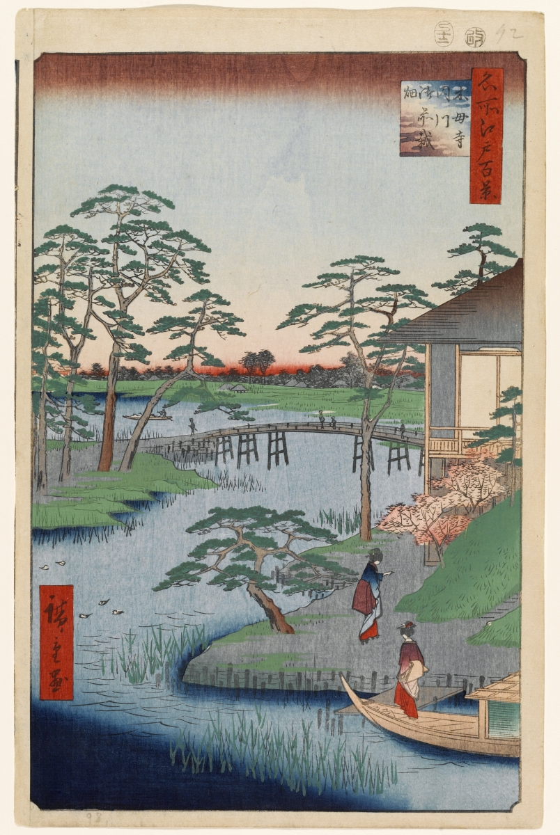 Part of the series One Hundred Famous Views of Edo, no. 092, part 3: Autumn.